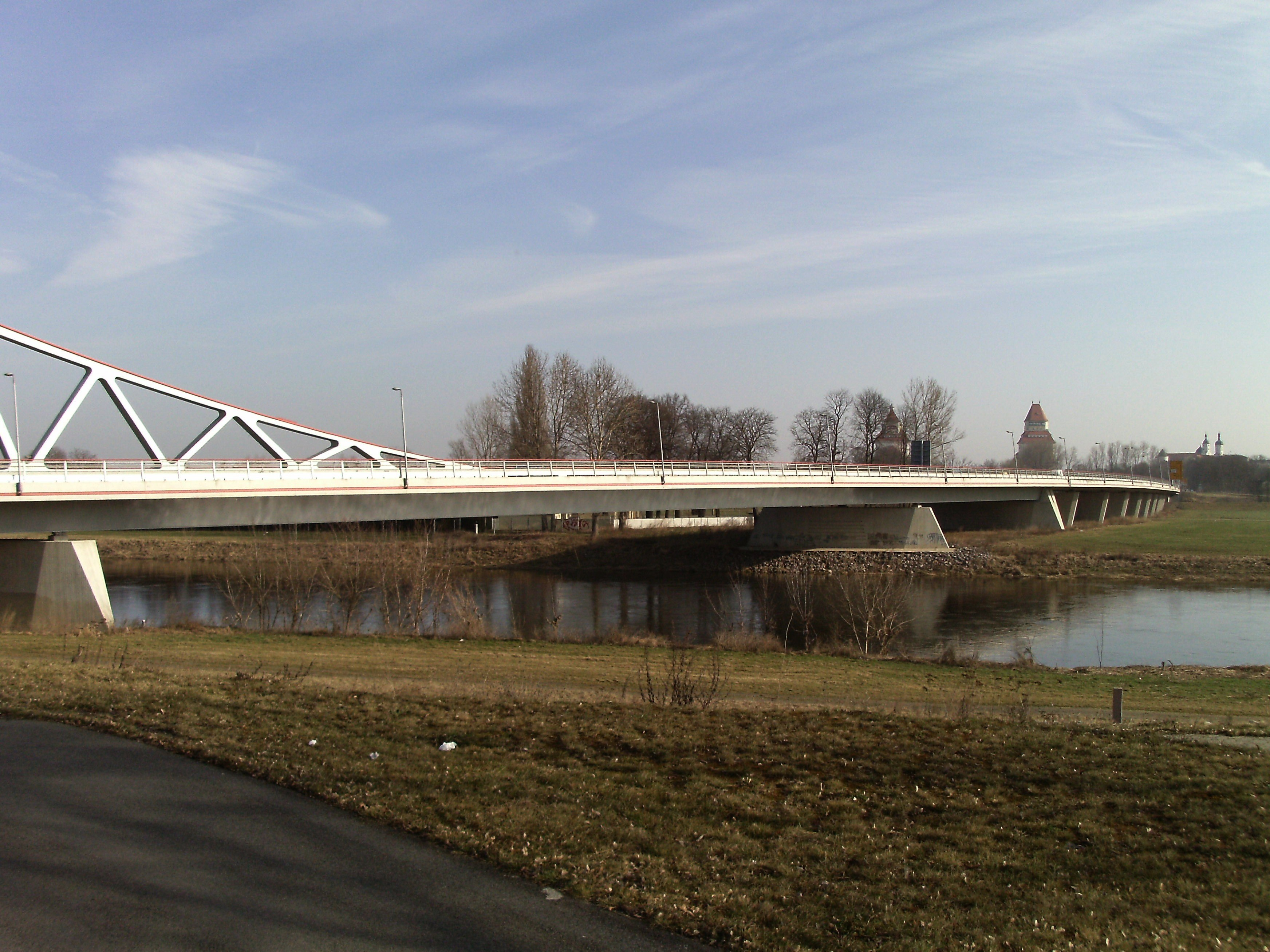 New bridge over the Mulde river between Bennewitz and Wurzen (Leipzig district, Saxony)